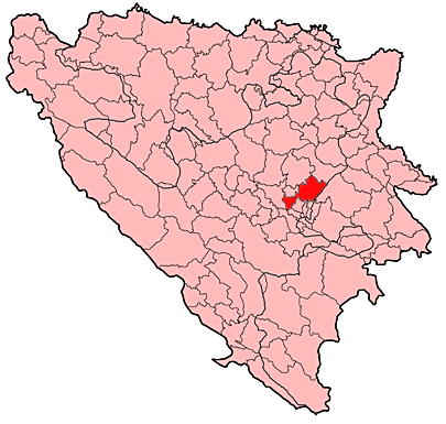 Location of Ilijaš municipality in Bosnia and Herzegovina.